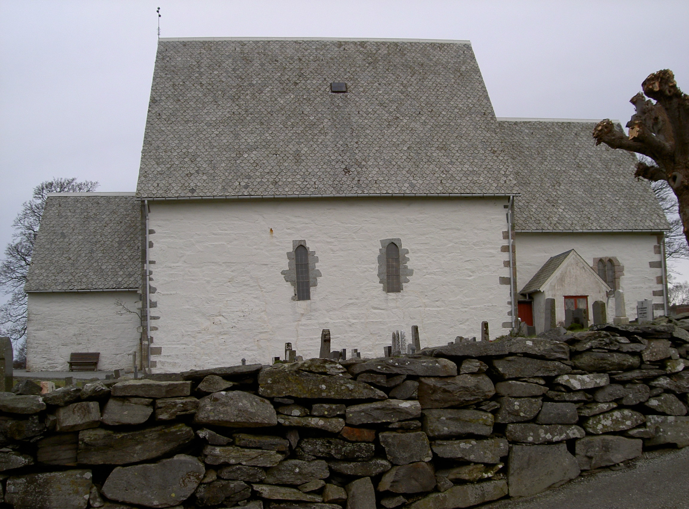 Hesby church, built about 1250 AD in gothic style